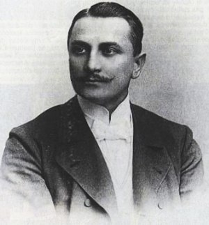 Photograph of Czech painter Luděk Marold (1865-1898)